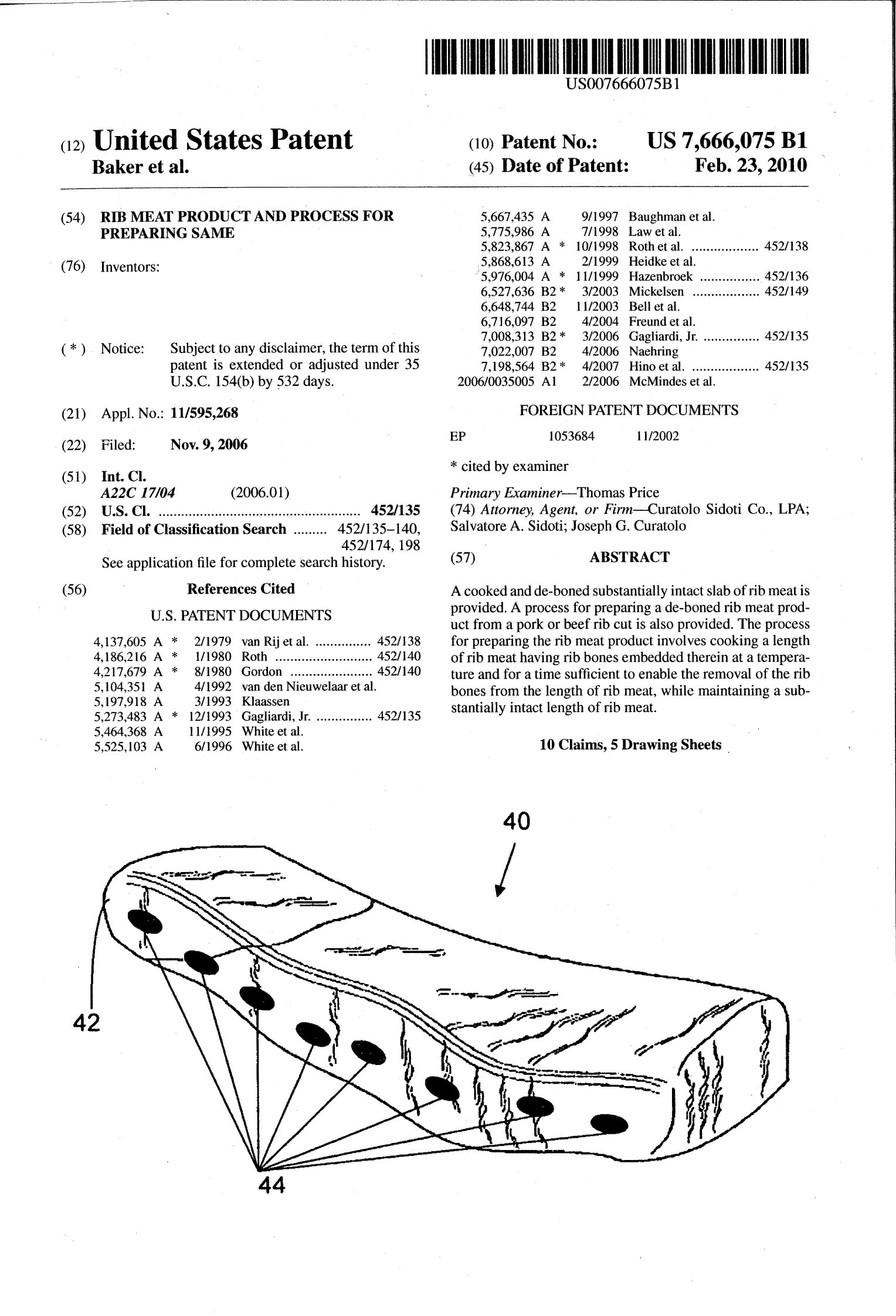 Bubba's Boneless Ribs Patent